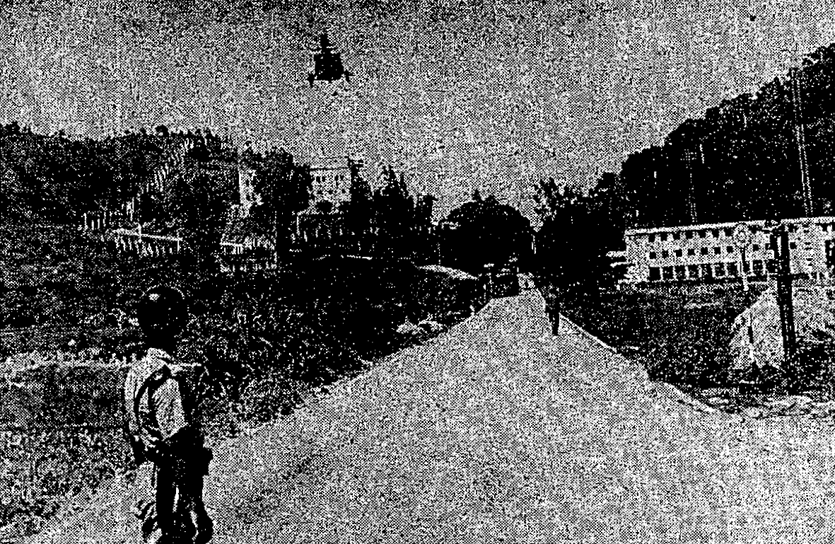 In the afternoon of the Sha Tau Kok incident, police officers were guarding at the cordon outpost. A military helicopter was reconnoitring at low altitude.